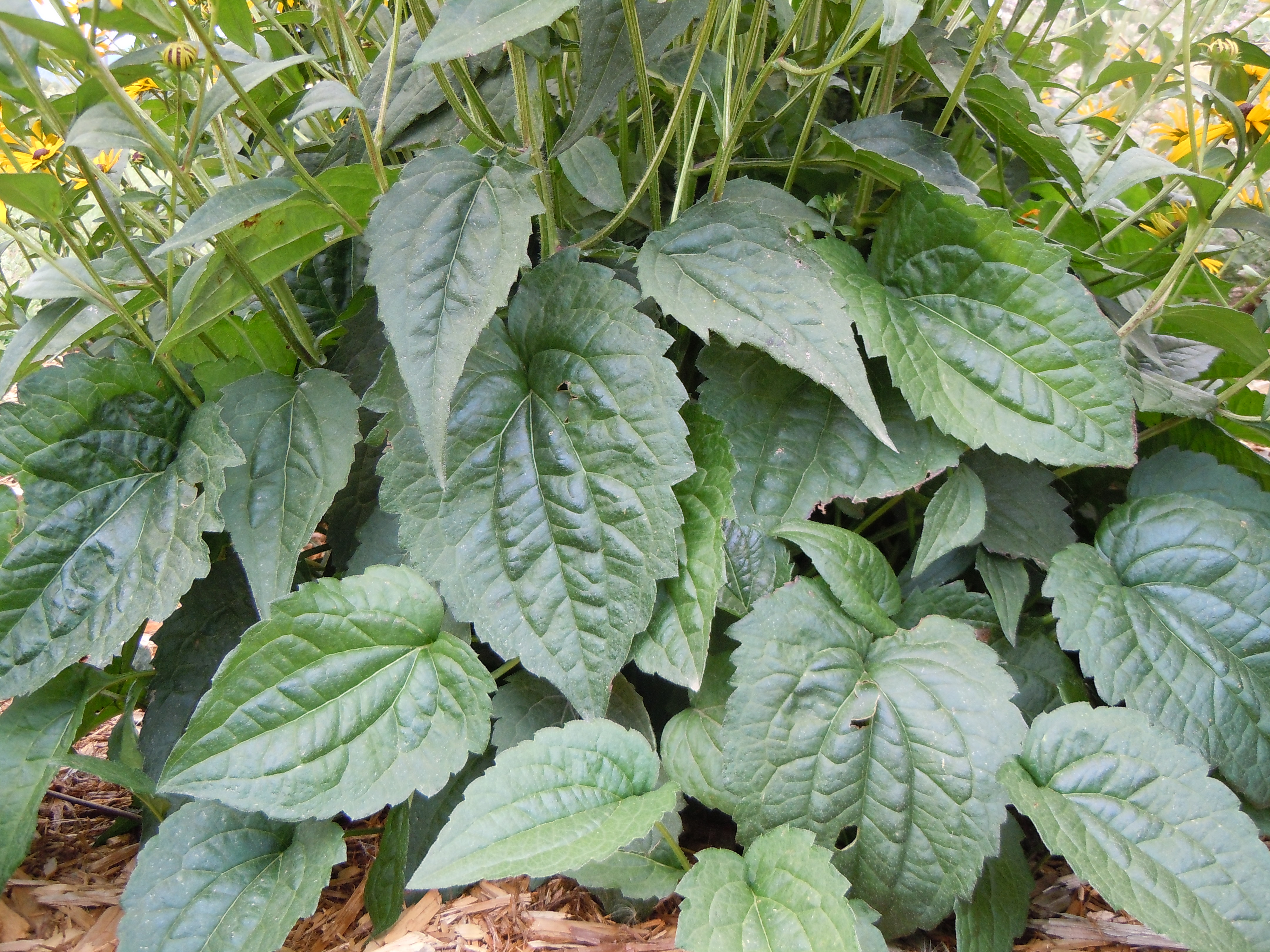 The leaves are variably broad but typically with serrate margins.